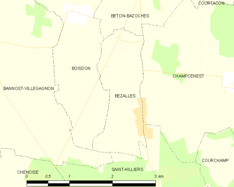 Map of French municipality Bezalles